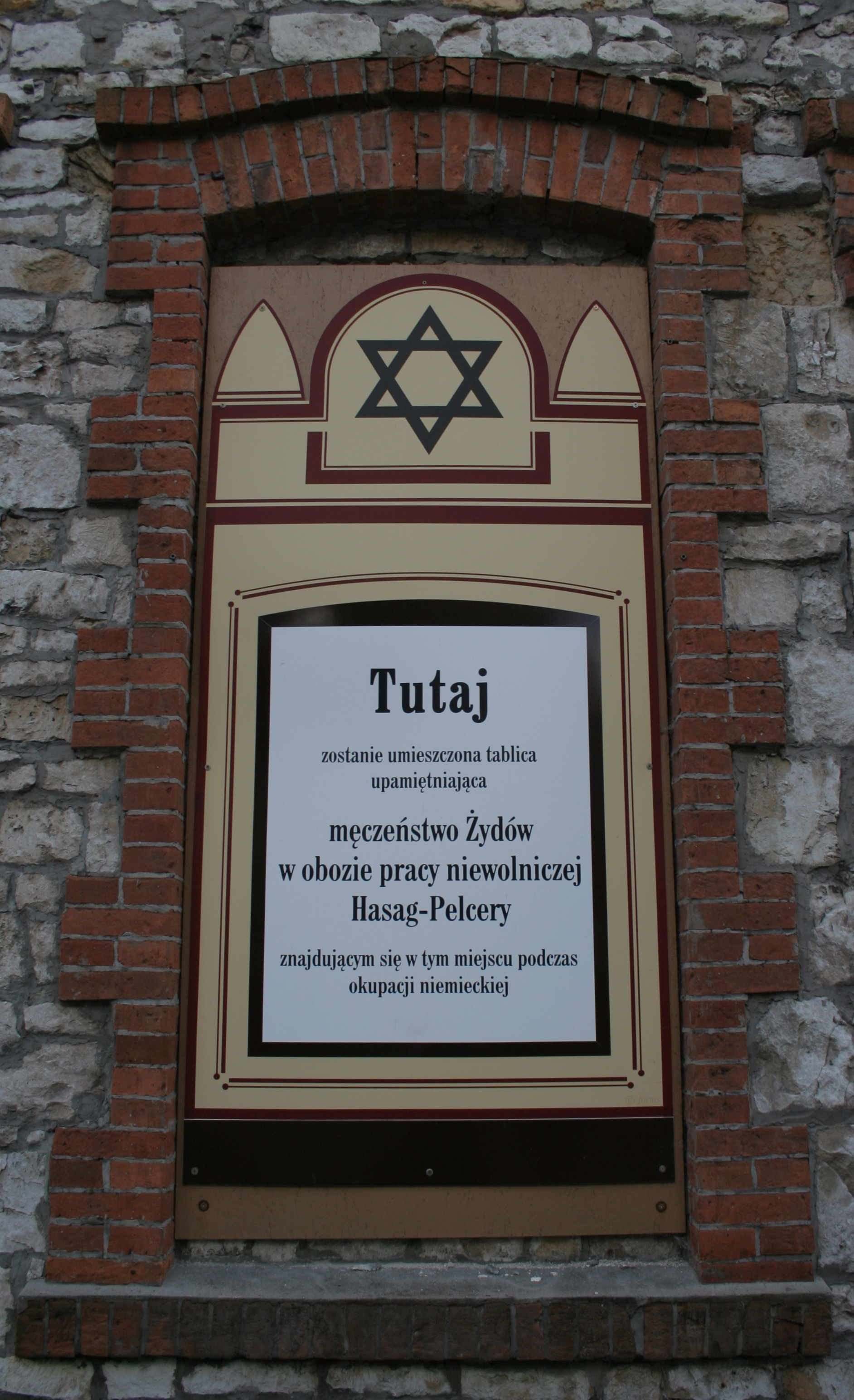 Plaque commemorating the Nazi forced-labor camp HASAG-Pelcery where Polish Jews were forced to work during World War II.